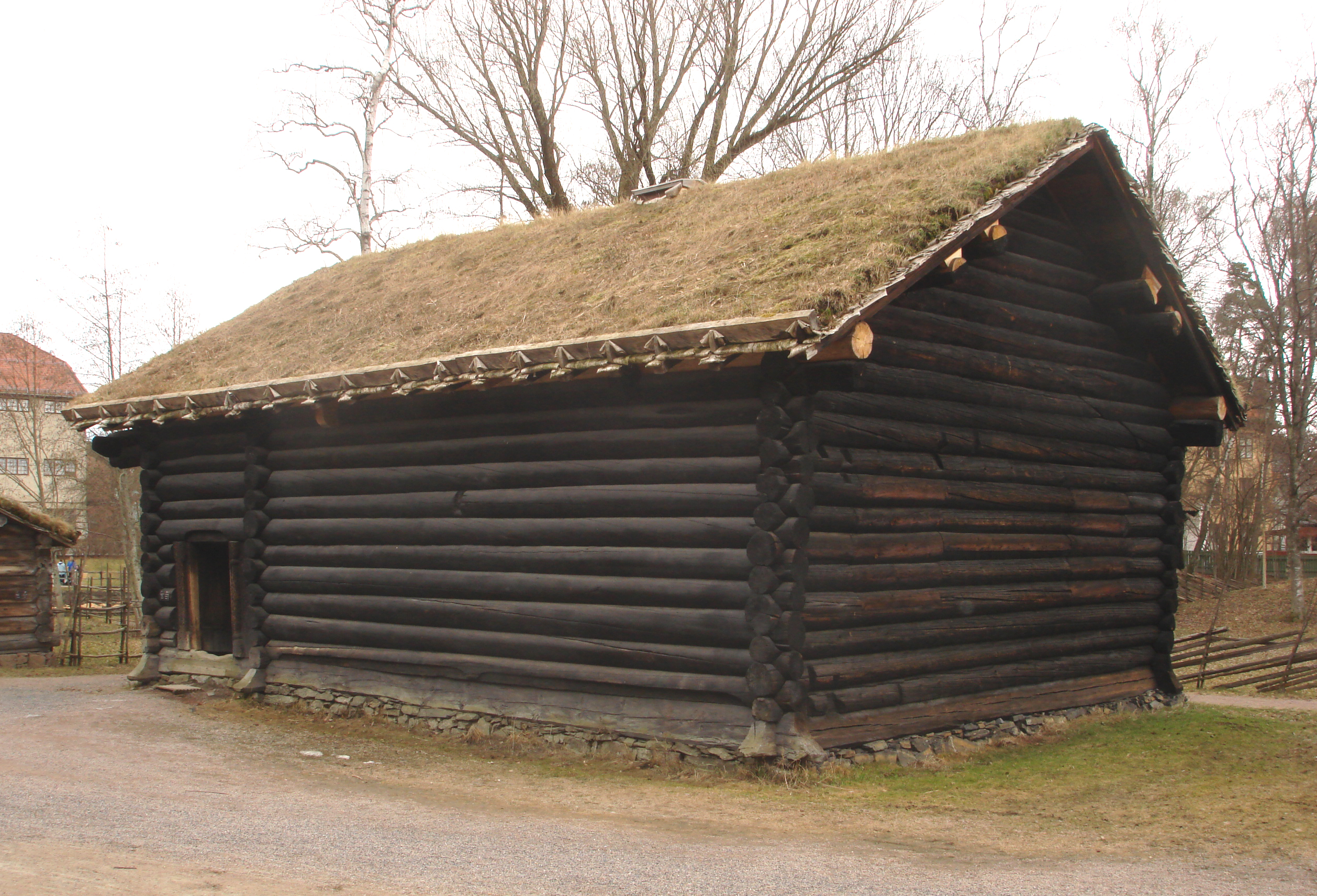 Farmhouse from Rauland, Uvdal, Norway, 1238. Now at the Norsk Folkemuseum, Oslo